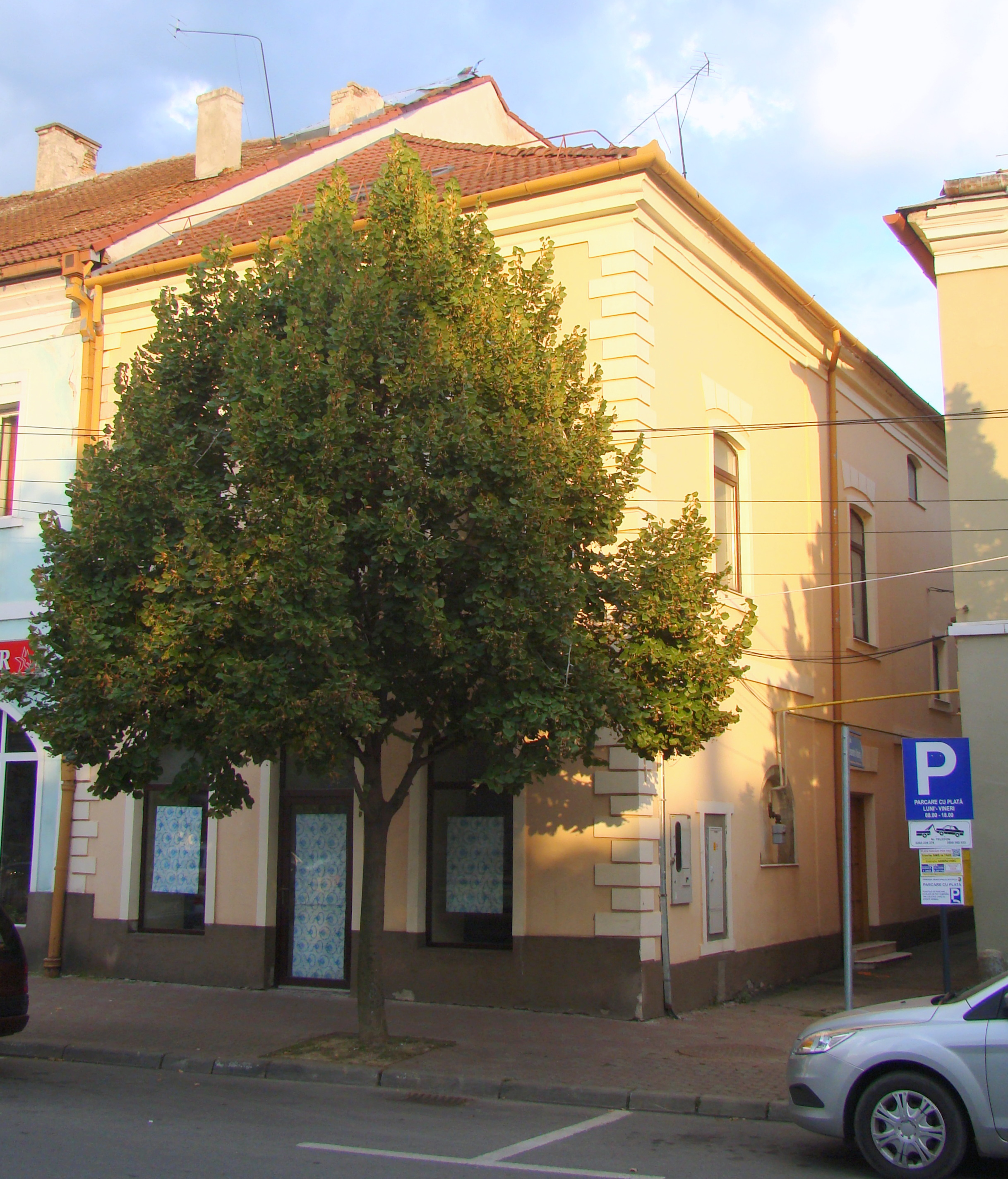 House, historic monument, in Bistrița, Piața Centrală 44